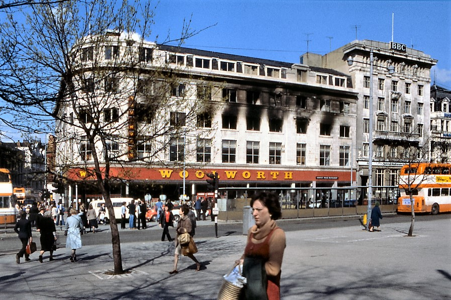 Woolworth's, Manchester. The Woolworth's department store at the corner of Oldham Street and Piccadilly in Manchester, photographed a few days after the disastrous fire of 8th May 1979 which killed 10 people and left a further 47 needing hospital treatment.